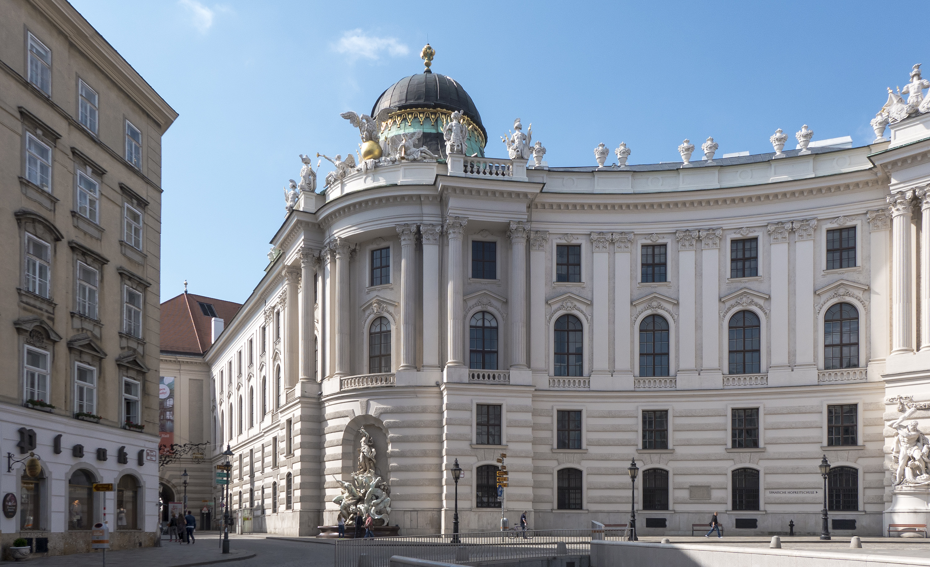 Winterreitschule at Hofburg in Vienna 1